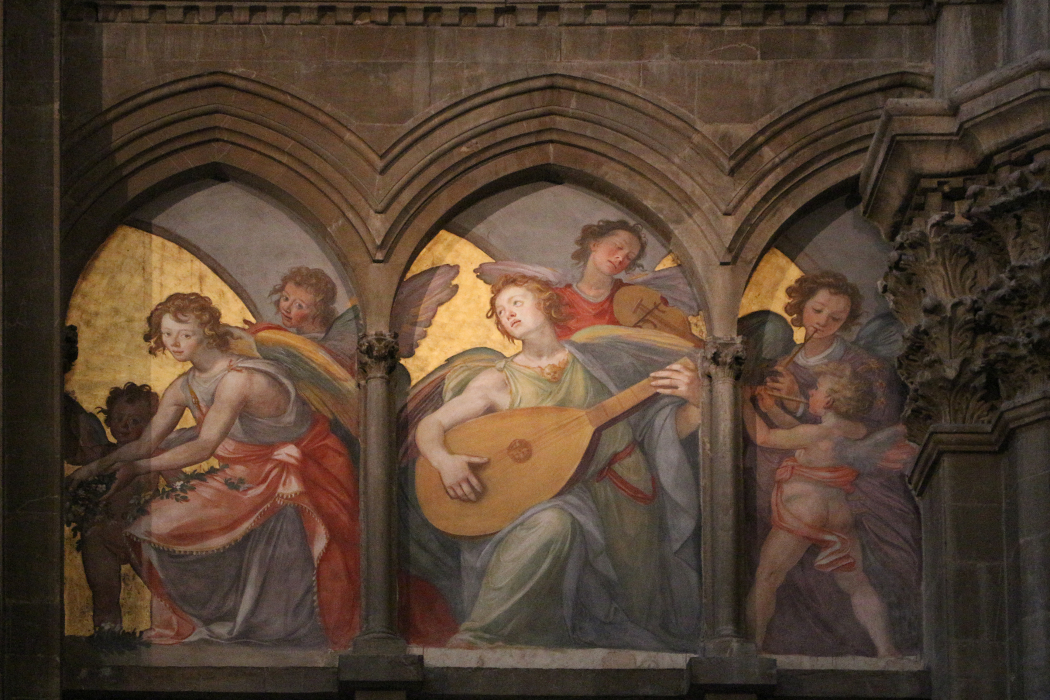 Frescos in Santa Maria del Fiore (Florence)